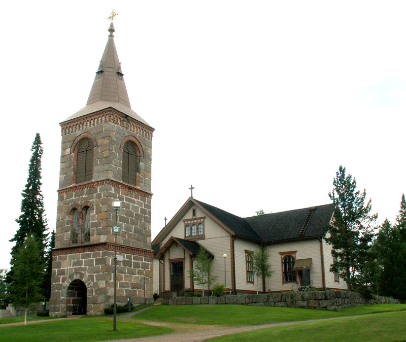 Parkano Church in Parkano, Finland. Completed in 1800 (the belfry in 1899).